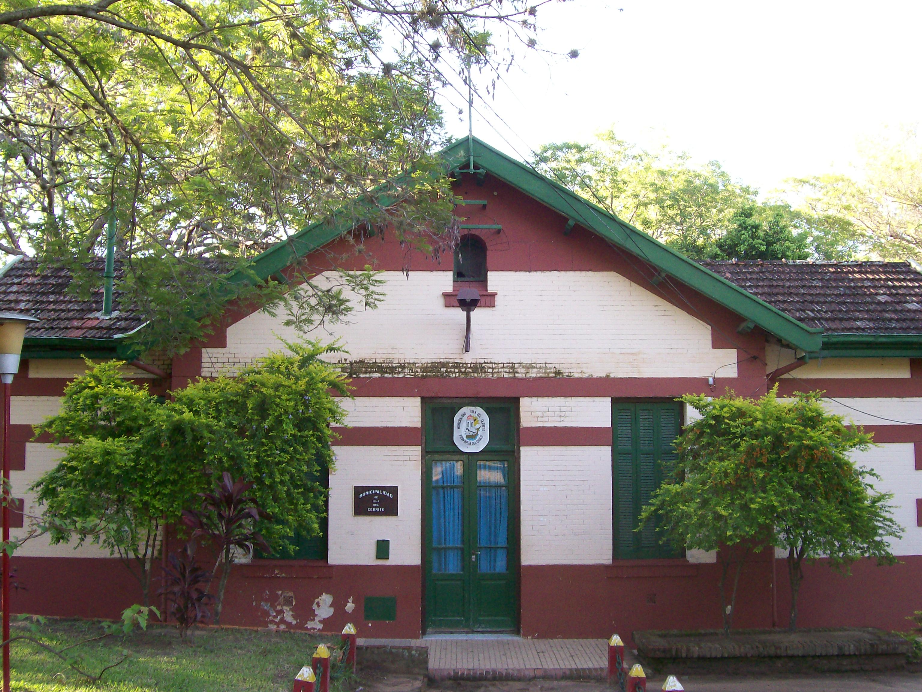 Front view of the municipality (town hall) in Isla del Cerrito, Chaco, Argentina.